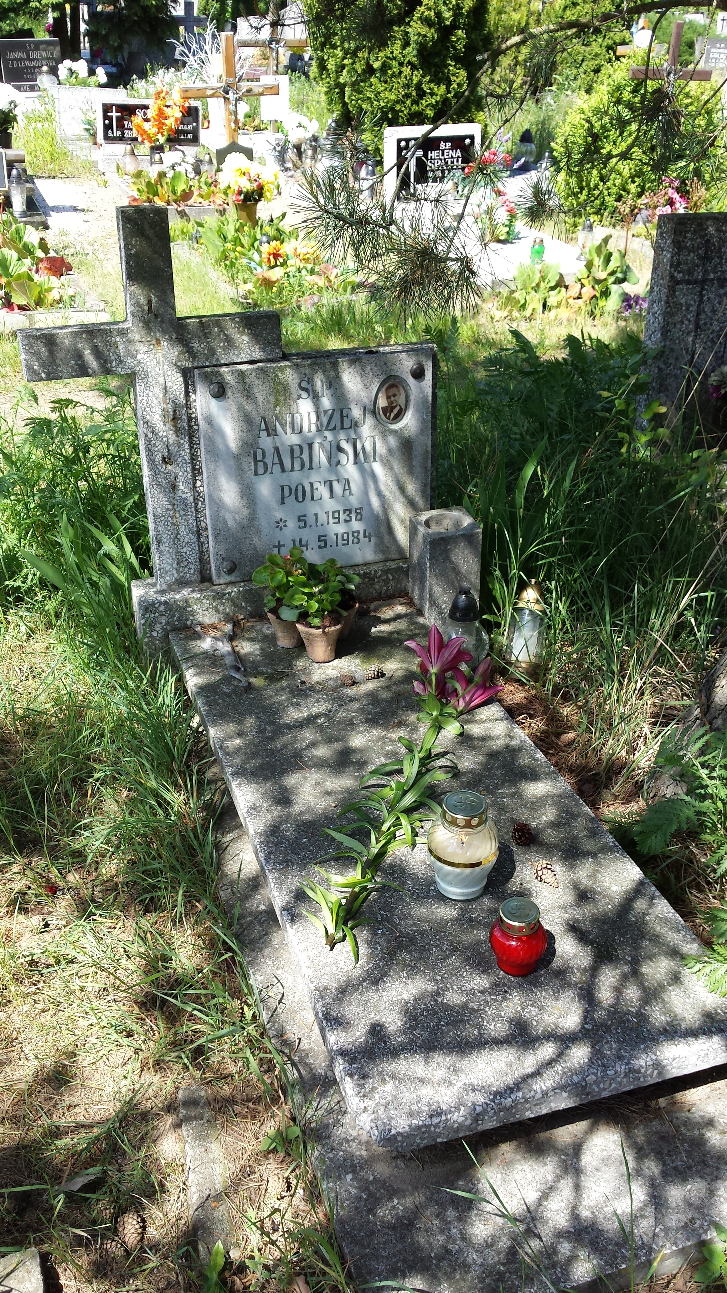 The grave of Andrzej Babiński in Junikowo Cemetary in Poznań.